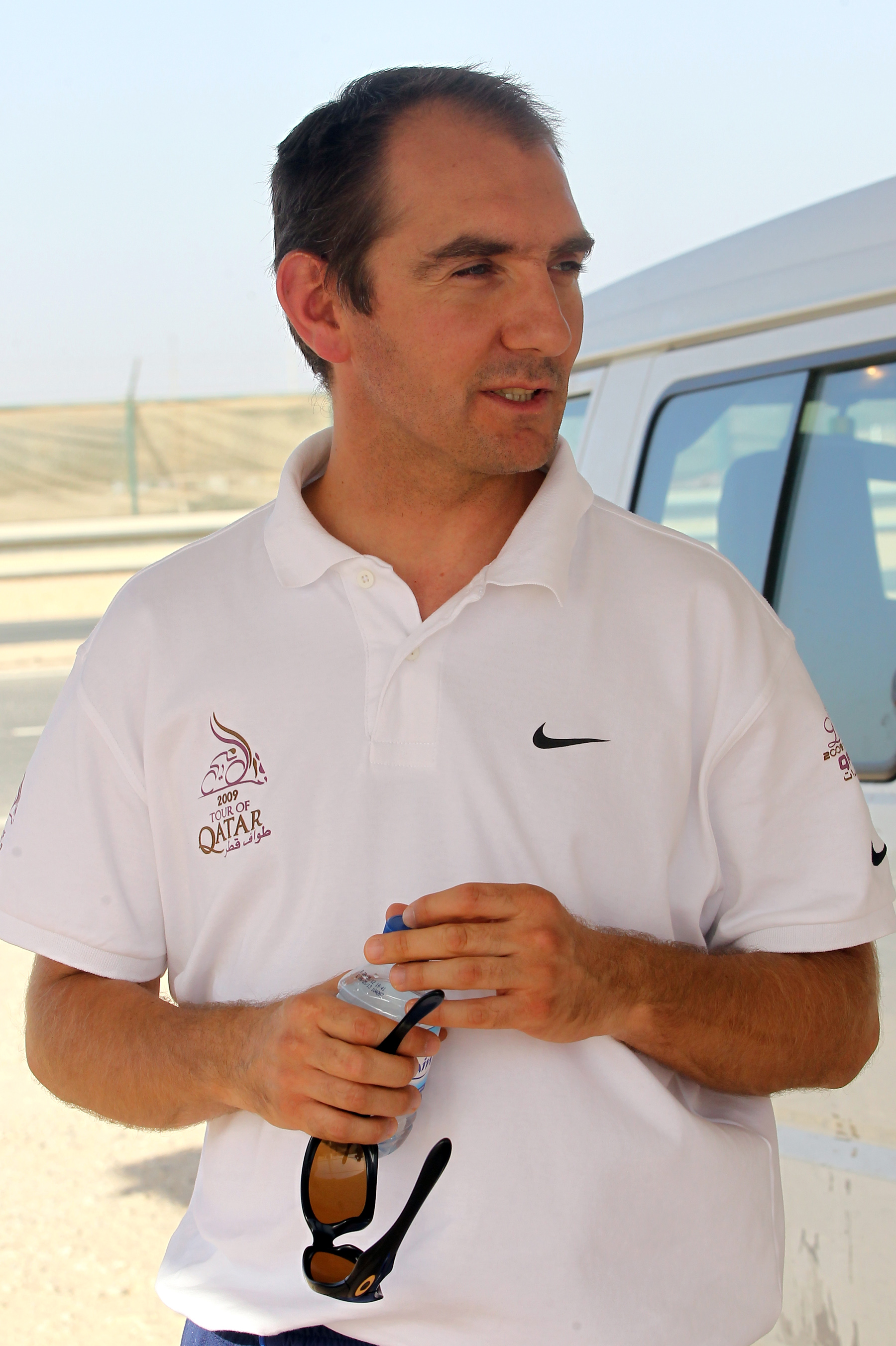 Former professional rider Branko Filip, from Slovenia, who coaches the Qatar national team, during a training session in Losail. Picture by Mohan